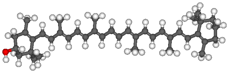 A ball and stick model of the Cryptoxanthin molecule.